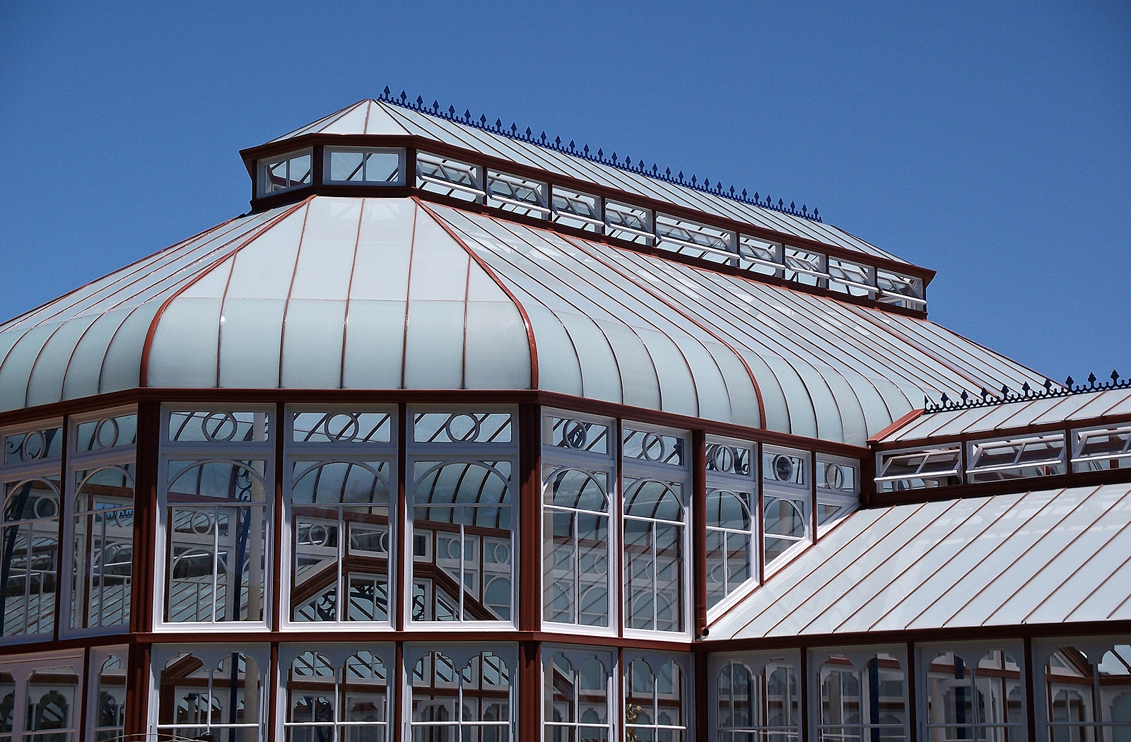 Pearson Conservatory which is located in St George's Park, Port Elizabeth, South Africa This media shows a South African Protected Site with SAHRA file reference 9/2/073/0031.